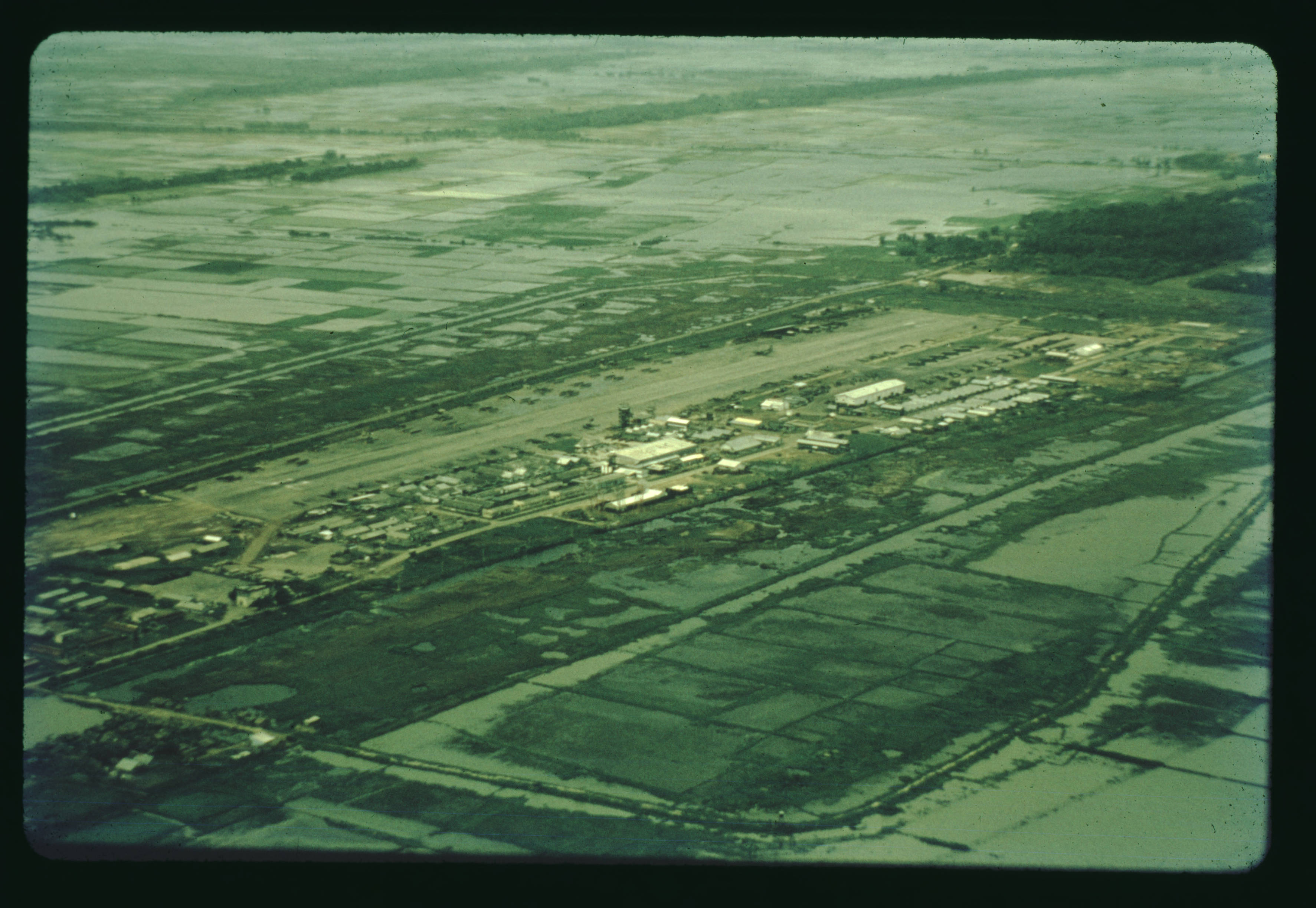 At Soc Trang the 69th Engineer Battalion constructed aviation support facilities and buildings for communications equipment